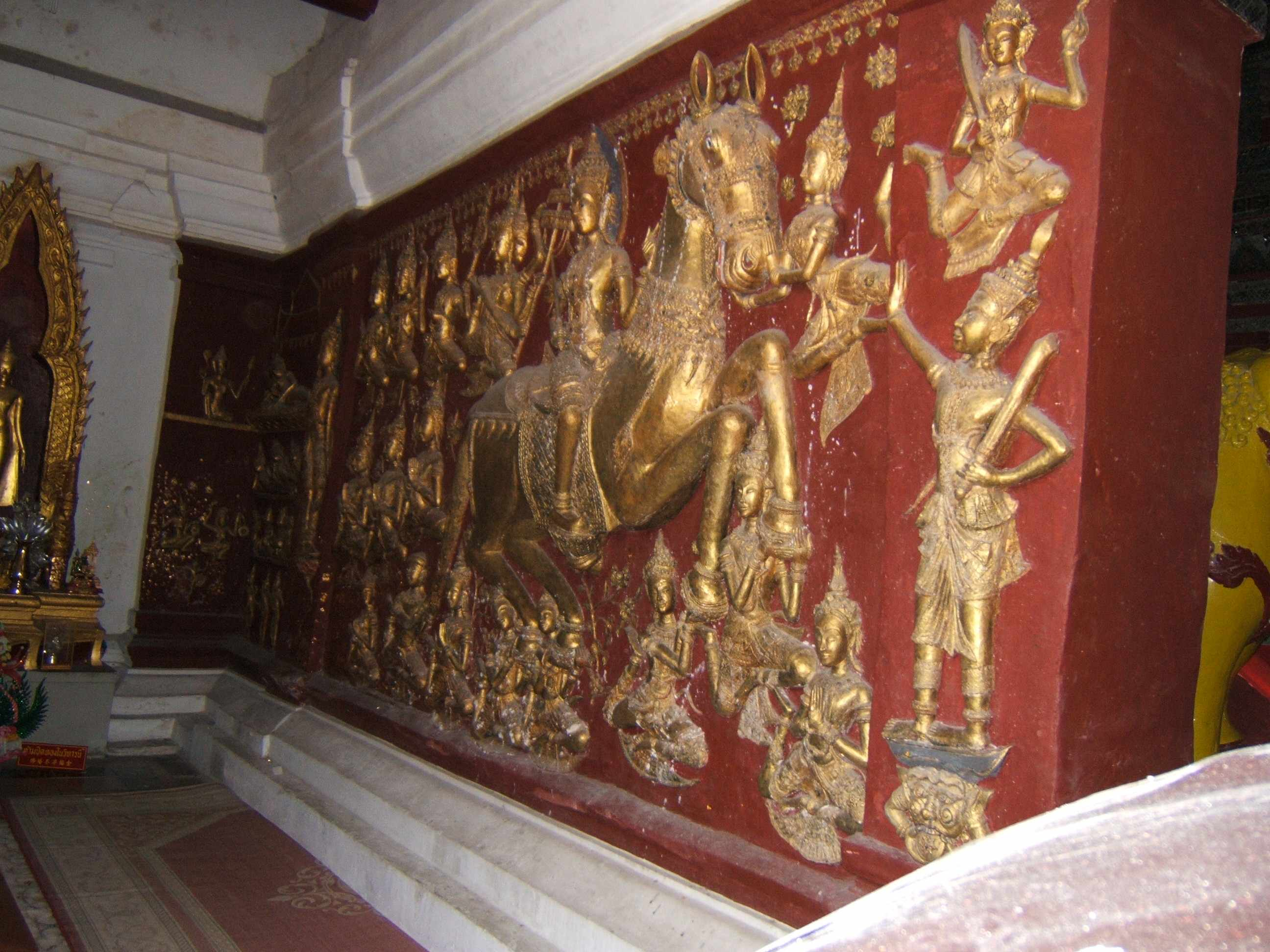 Details of the Chedi at Wat Mahathat Nakhon Si Thammarat (after revent reconstruction)